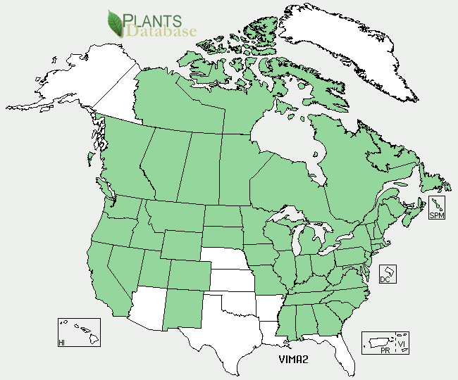 Viola macloskeyi distribution map